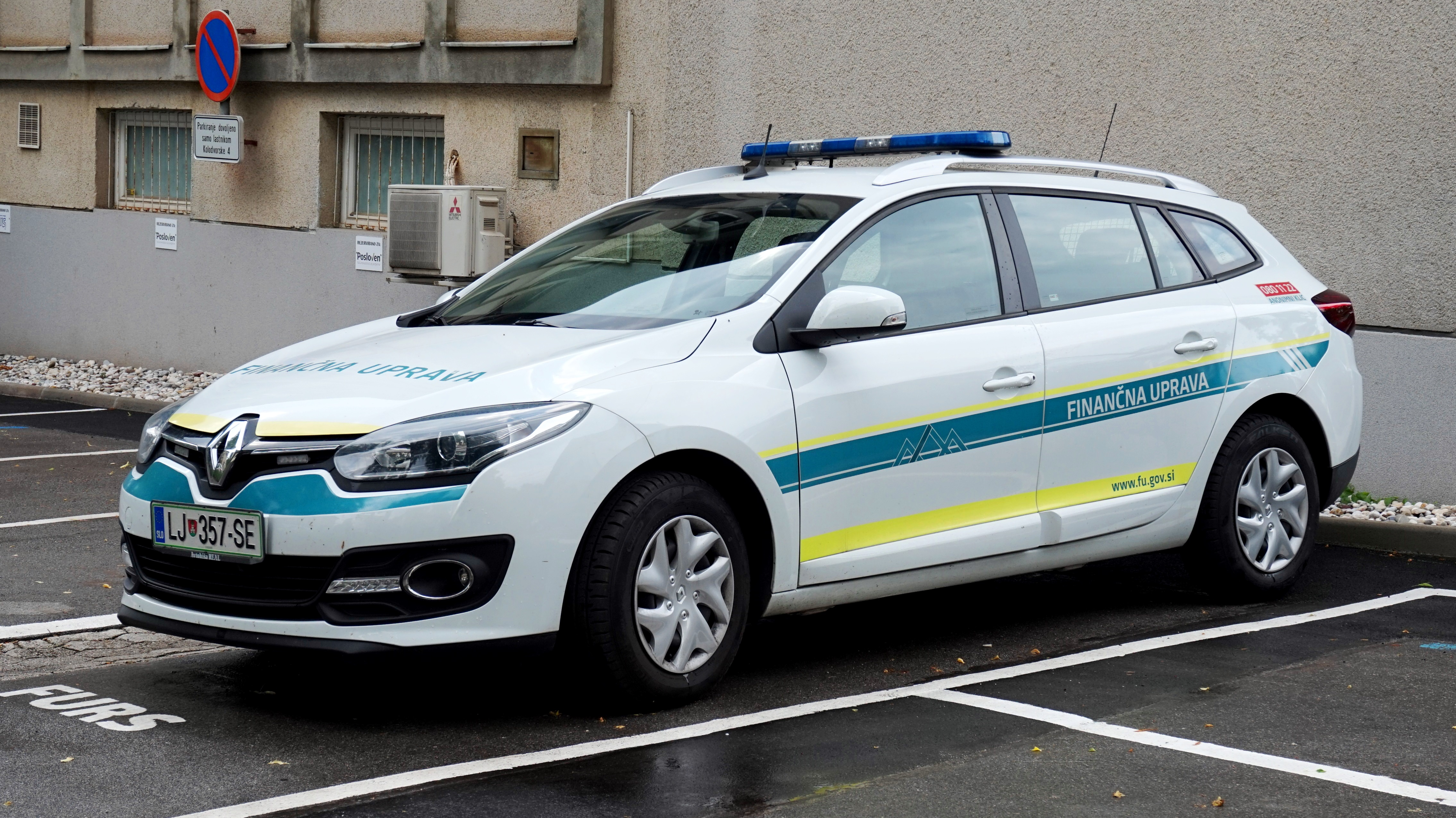 A Renault Mégane car of Financial Administration of Slovenia. Taken into use in 2015[2]